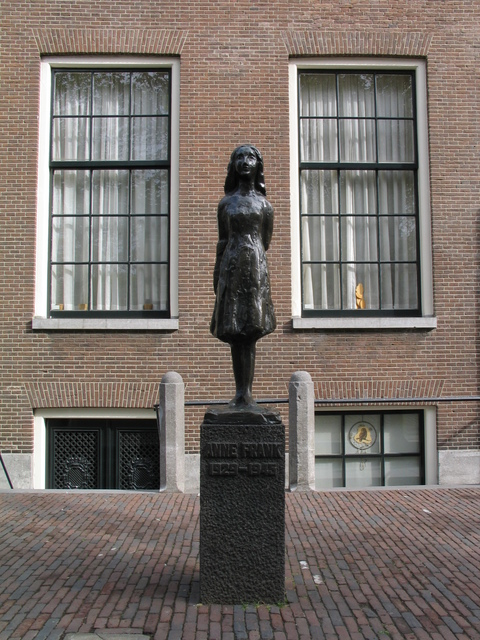 Statue of Anne Frank at Westermarkt in Amsterdam.